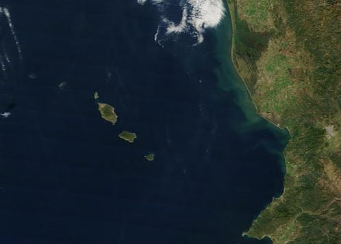 Terra MODIS satellite image of Maria Islands, Mexico